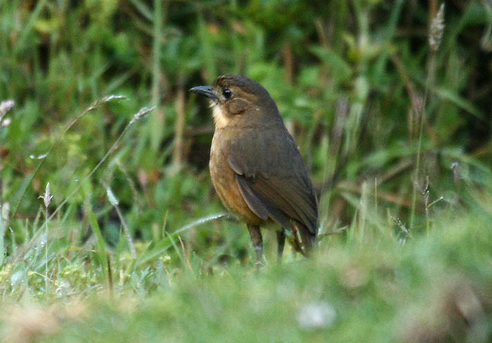 Tawny Antpitta (Grallaria quitensis). Near Yanacocha, Ecuador. 3/8/2007